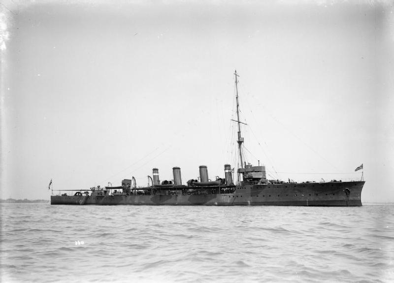 Photograph of British scout cruiser HMS Attentive.